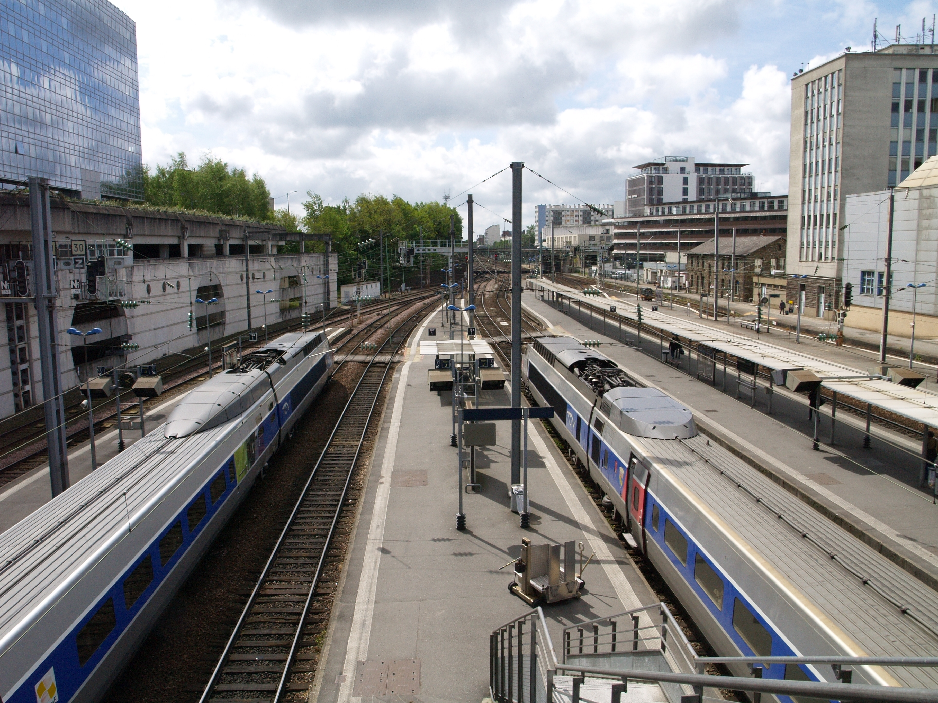 Two TGVs (Sud-Est and Réseau) in the station of Rennes, France.